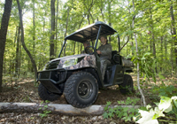 Kioti Mechron 2200 UTV (Ultimate Transport Vehicle) utility vehicle